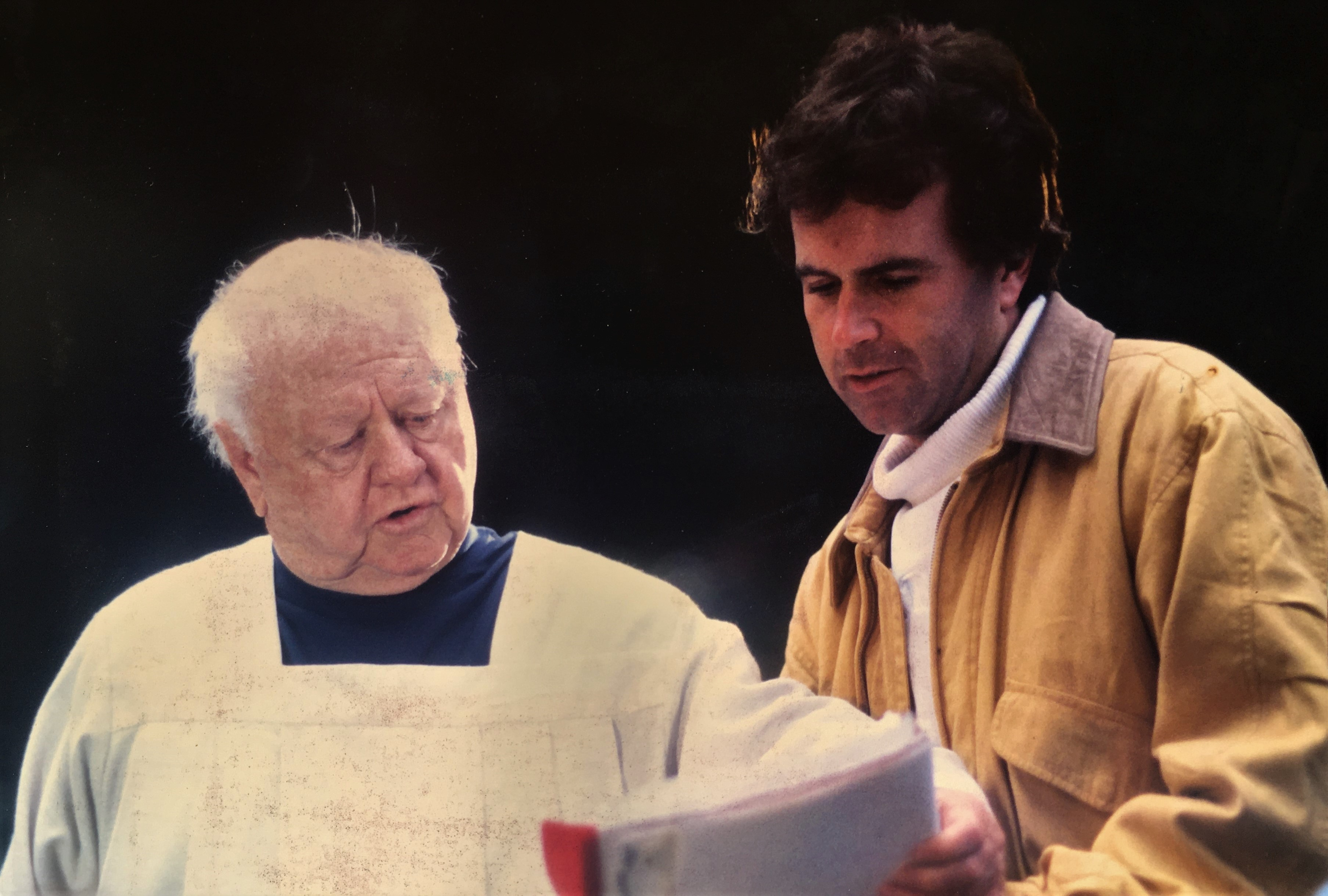 On set still photo by production photographer Jim Beaver